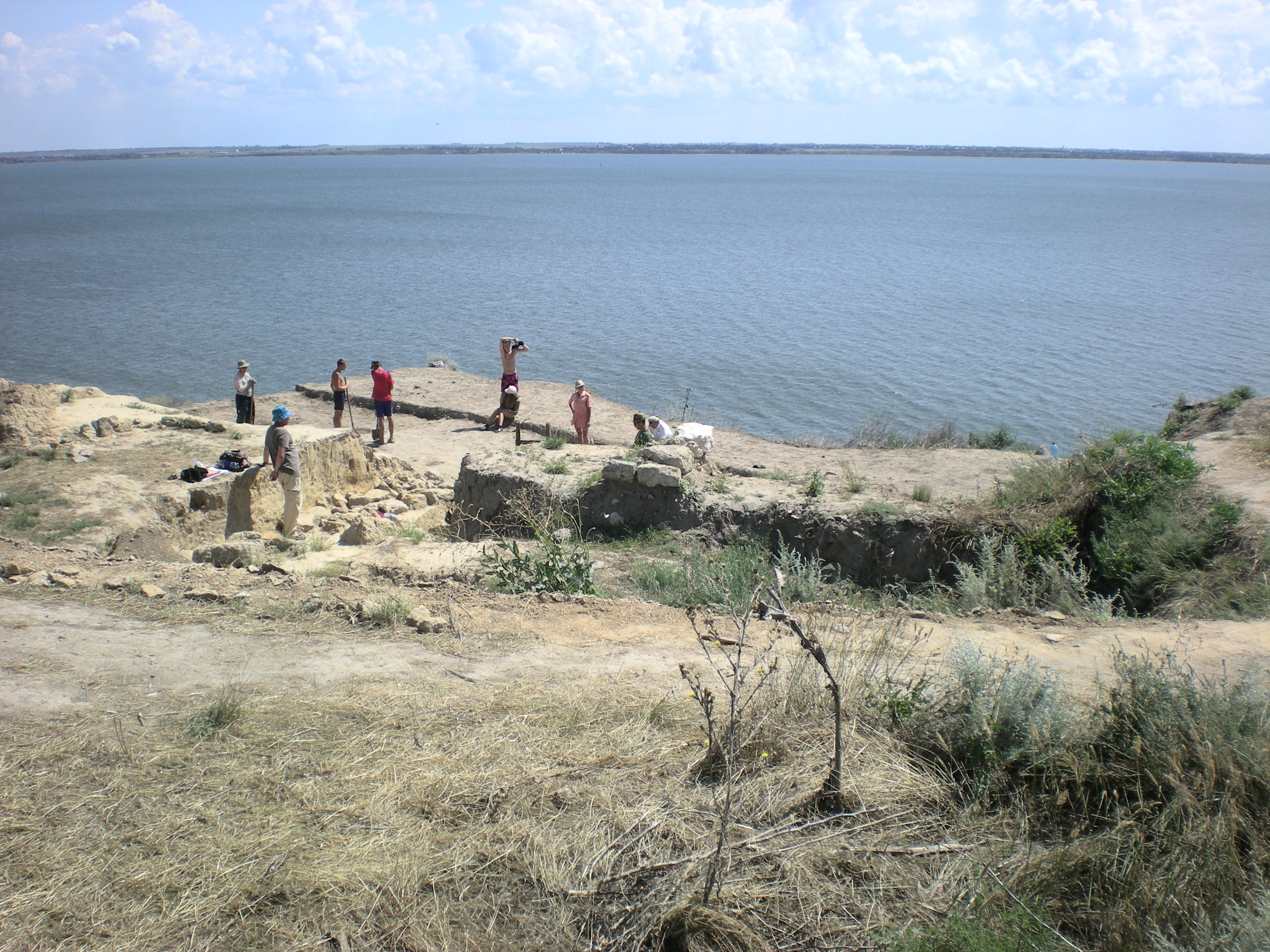 Archaeologists at work at the National historical and archaeological reserve "Olvia" (Ukraine, Mykolaiv region). July 2011